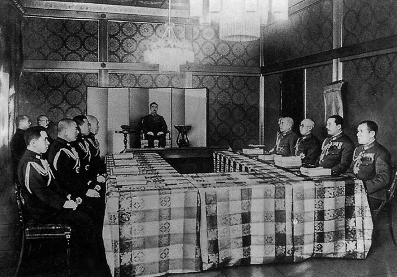 A scene of the Imperial General Headquaters meeting, 29 April 1943.